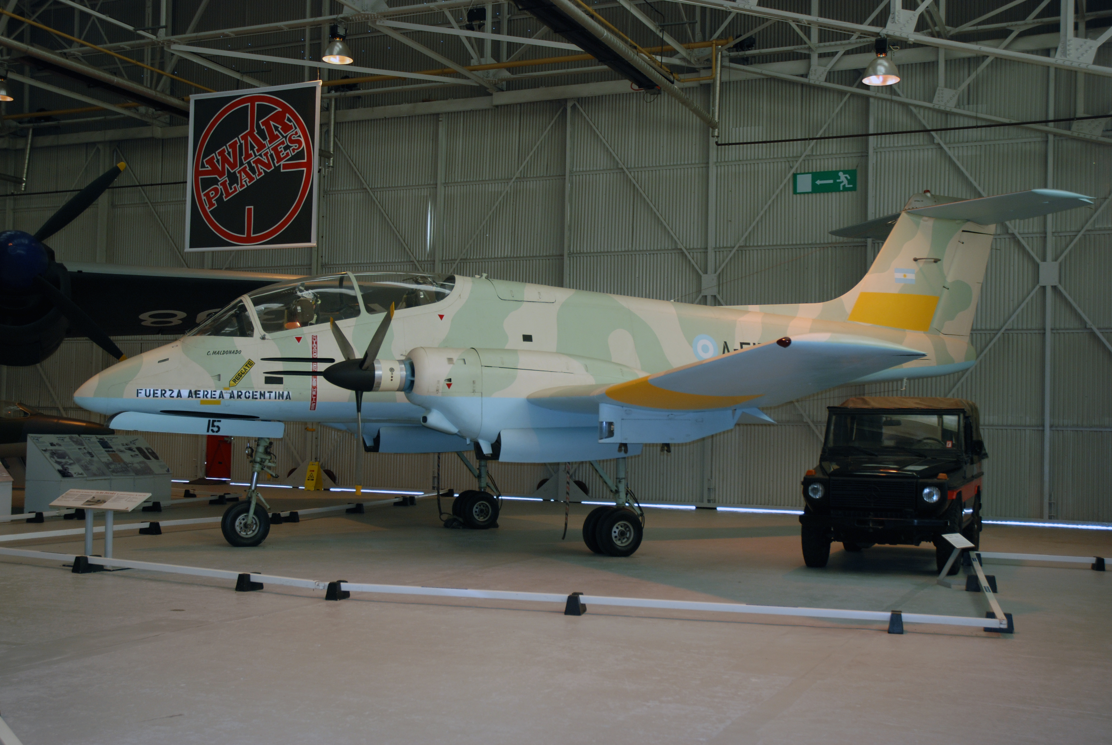 Cosford museum Oct 2007